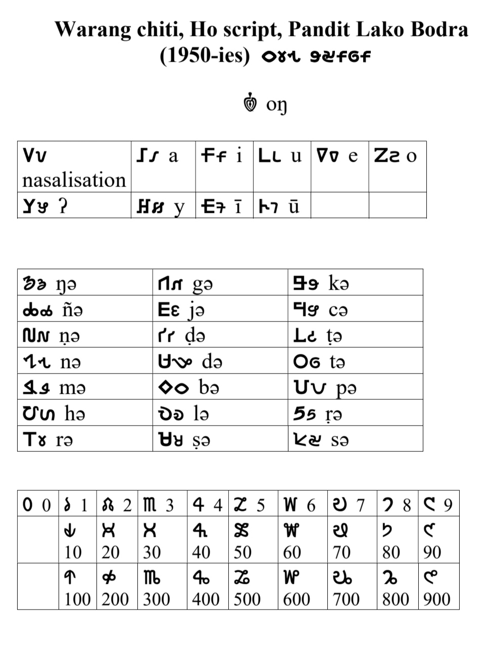 This is Warang Chiti the script to write Ho language.